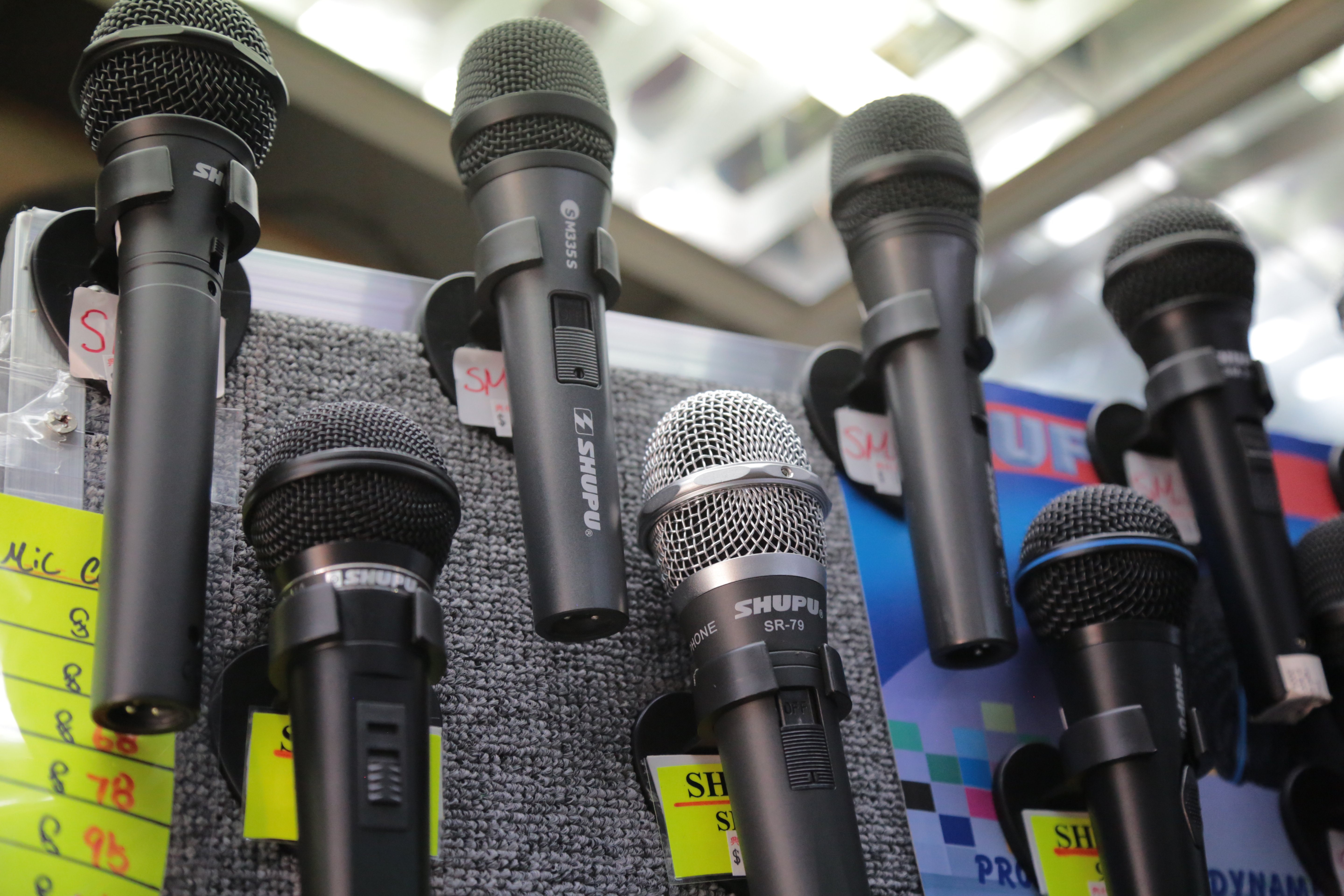 "Shupu" knock-offs of Shure brand Microphones